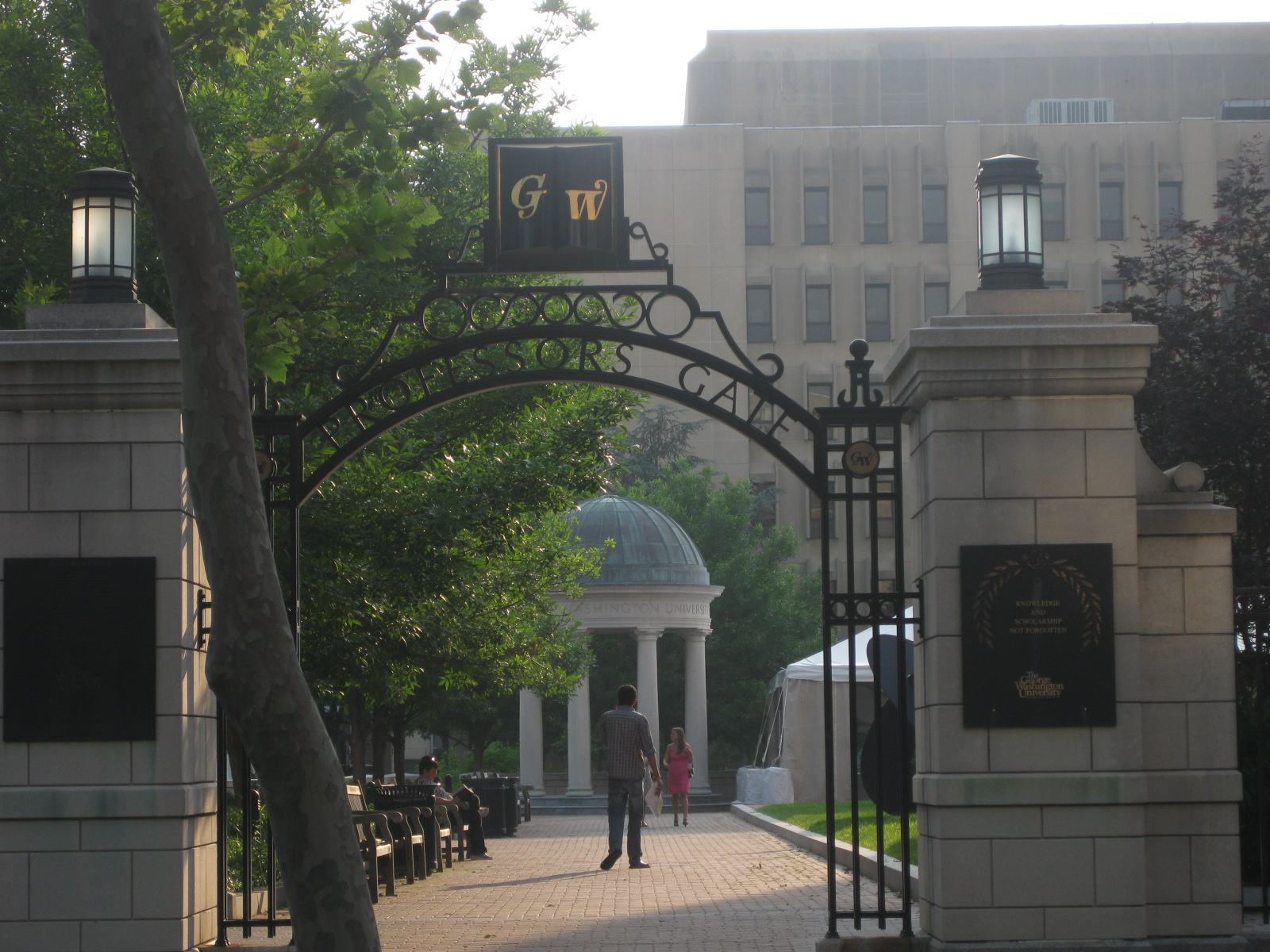 Professor's Gate leading into Kogan Plaza, next to Lisner Auditorium, at the George Washington University.